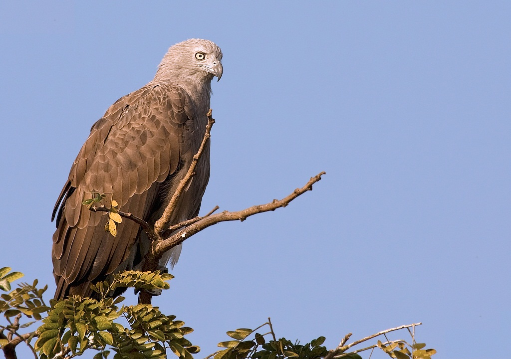 Lesser fish eagle at Ranganathittu, India